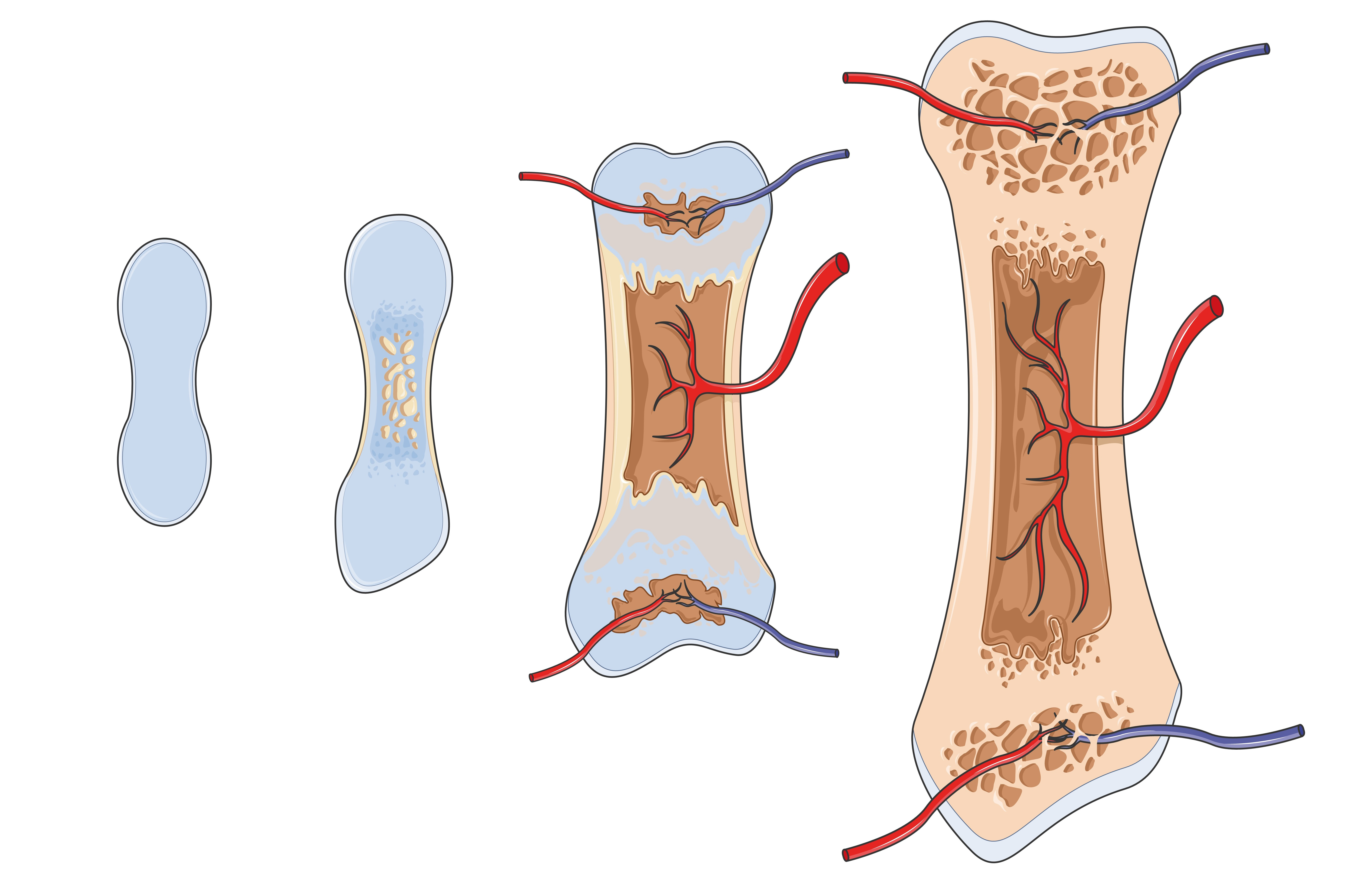 Skeleton and bones - Bone growth